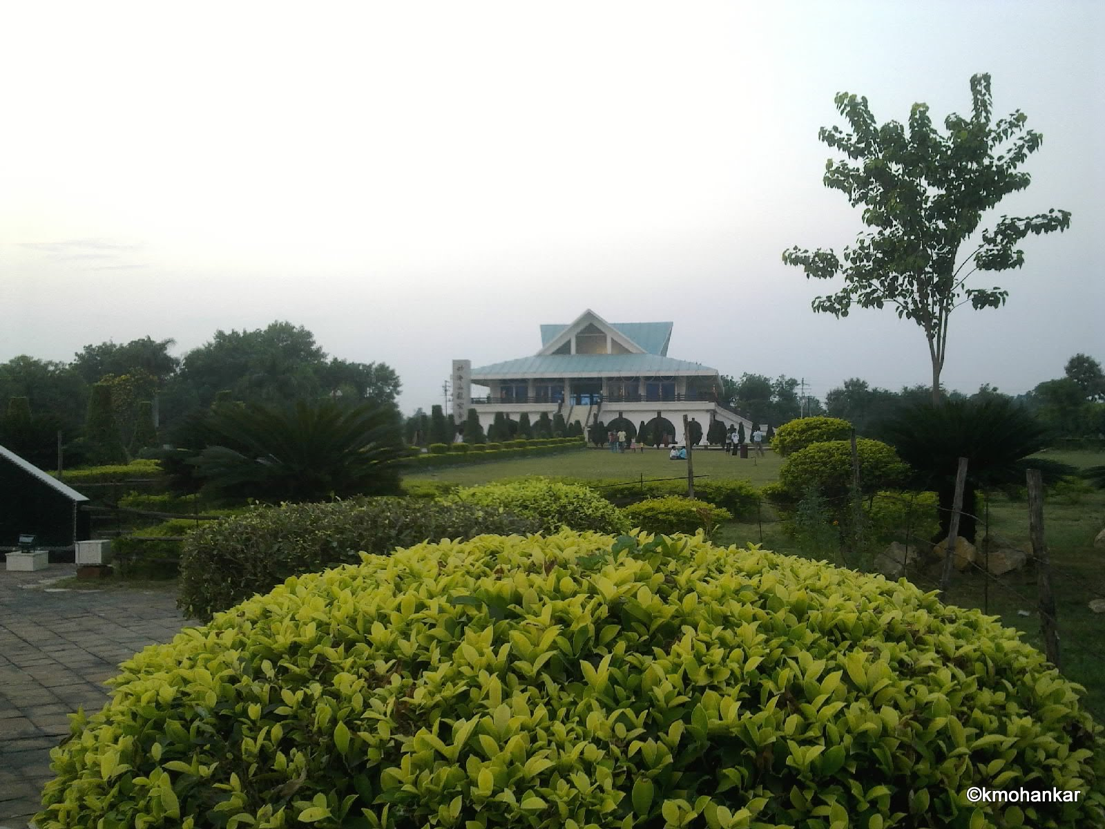 Dragon Palace Temple seen from entrance, Kamptee, India.